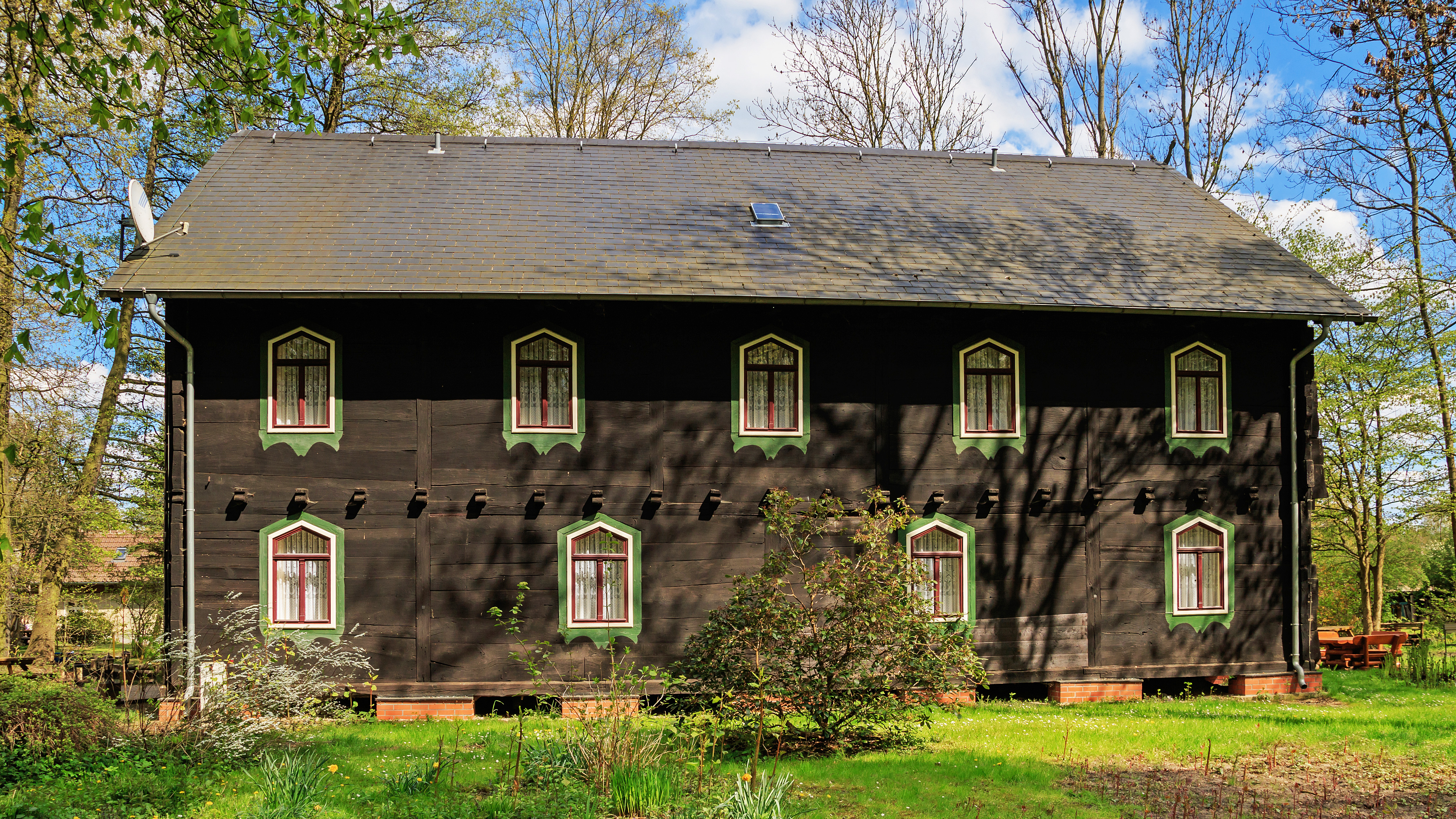 Lehde village in Lübbenau/Spreewald, Brandenburg, Germany